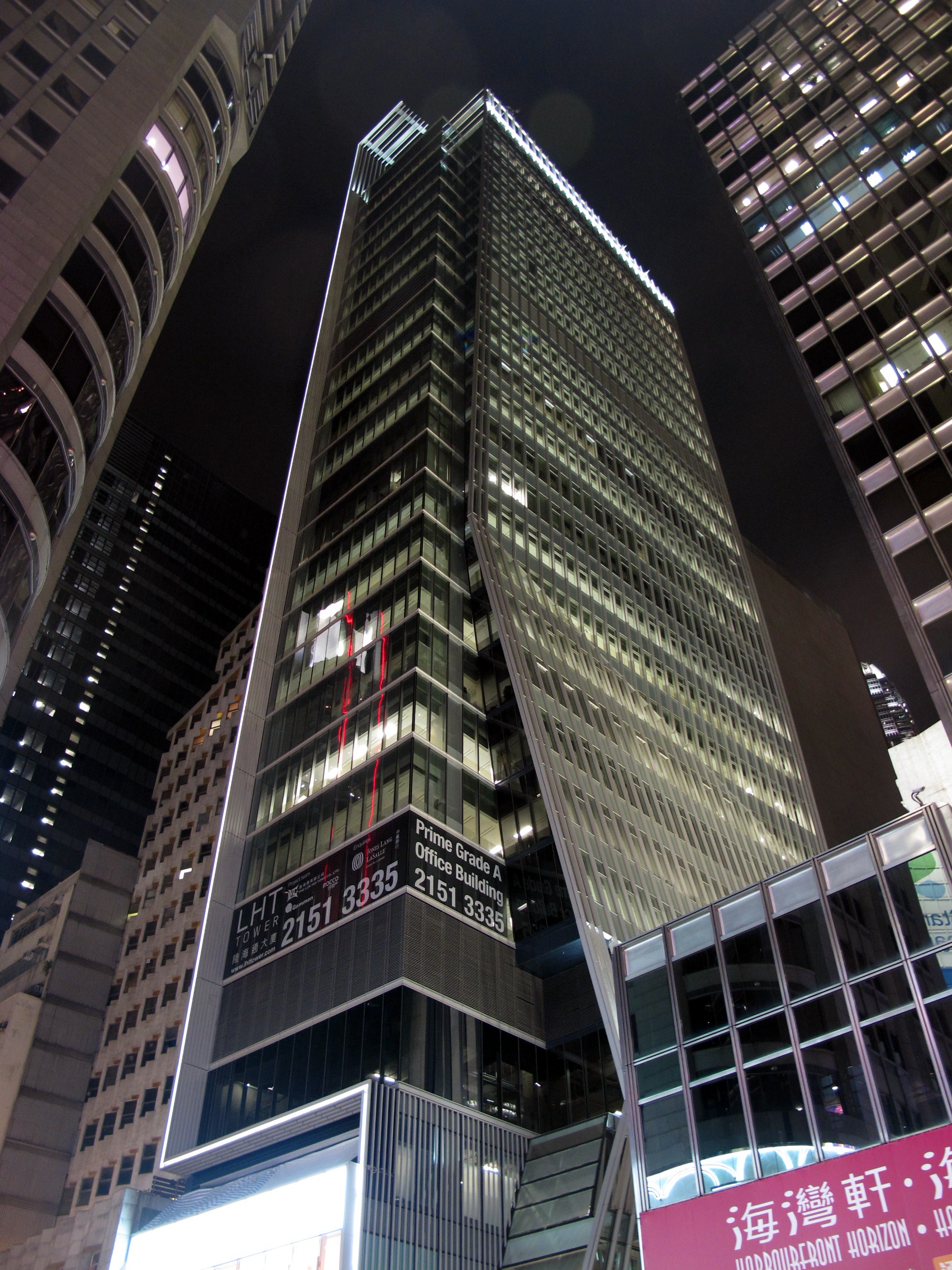 LHT Building 陸海通大廈